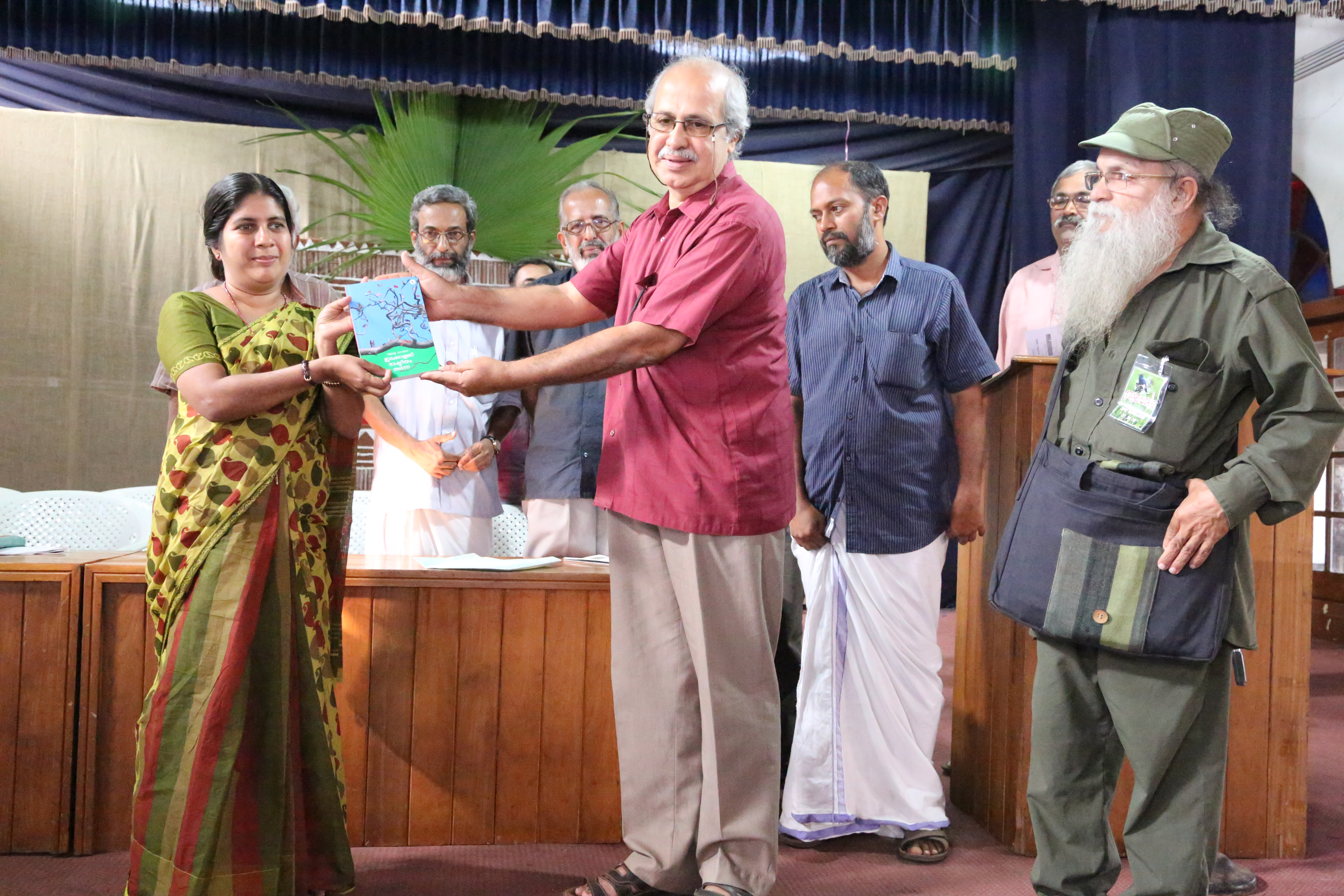 ഇക്കോളജി രാഷ്ട്രീയം തന്നെ എന്ന പുസ്തകത്തിന്റെ പ്രകാശനം പ്രമുഖ കൃഷി ശാസ്ത്രജ്ഞന്‍ 'ശ്രീ പട്രെ' നിര്‍വഹിക്കുന്നു